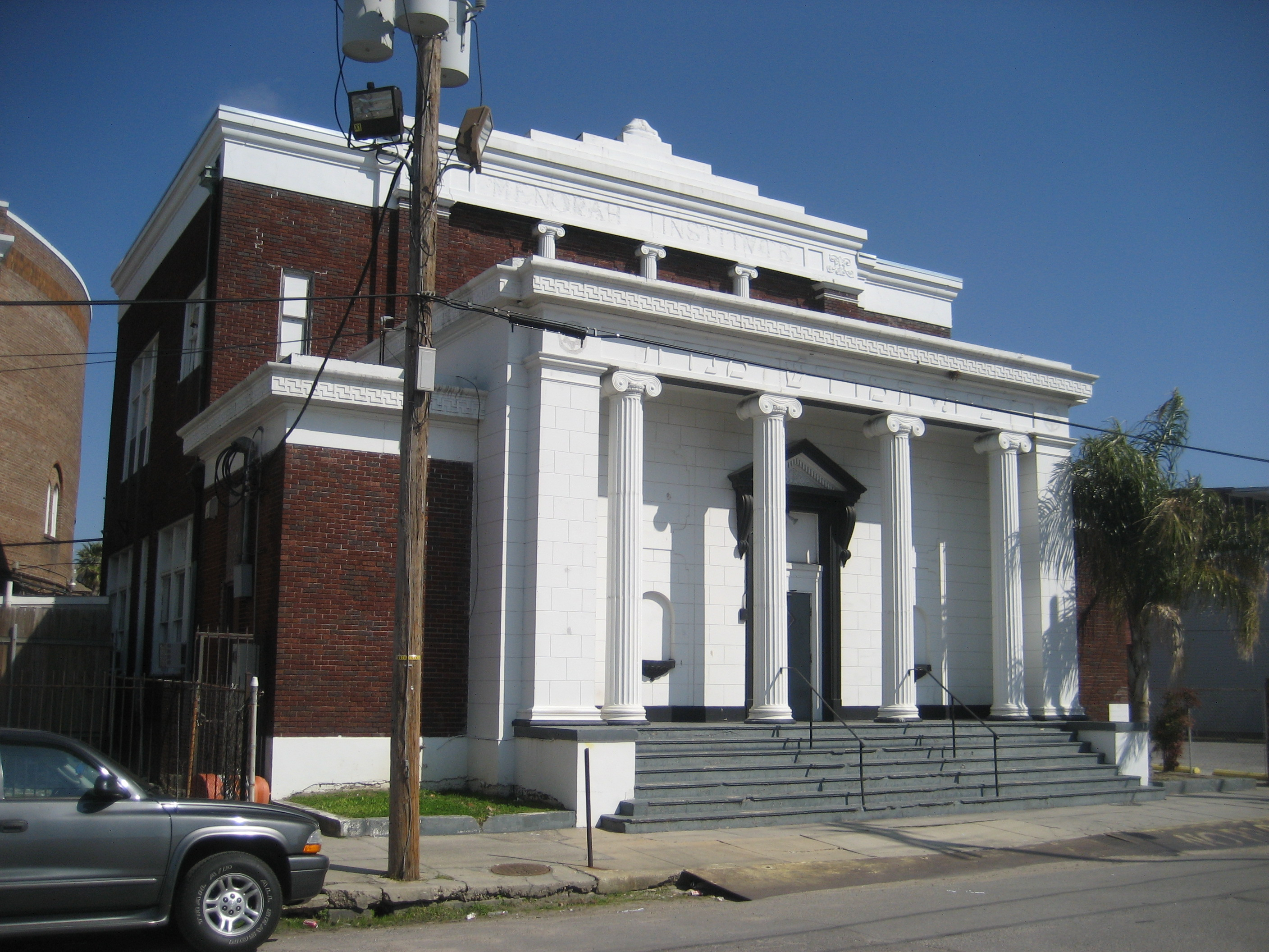 New Orleans. Old Congregation Beth Israel at Carondelet and Euterpe Streets. Menorah Institute building on Euturpe Street.